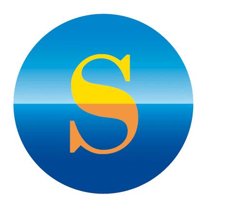 Tourist brand, designed in 2011 by Massimo Vignelli, for the city of Salerno.